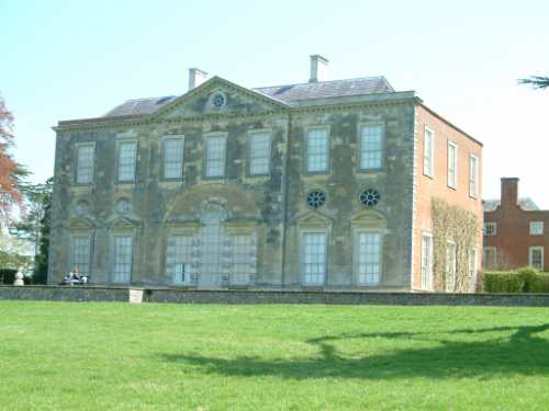 Claydon House front.